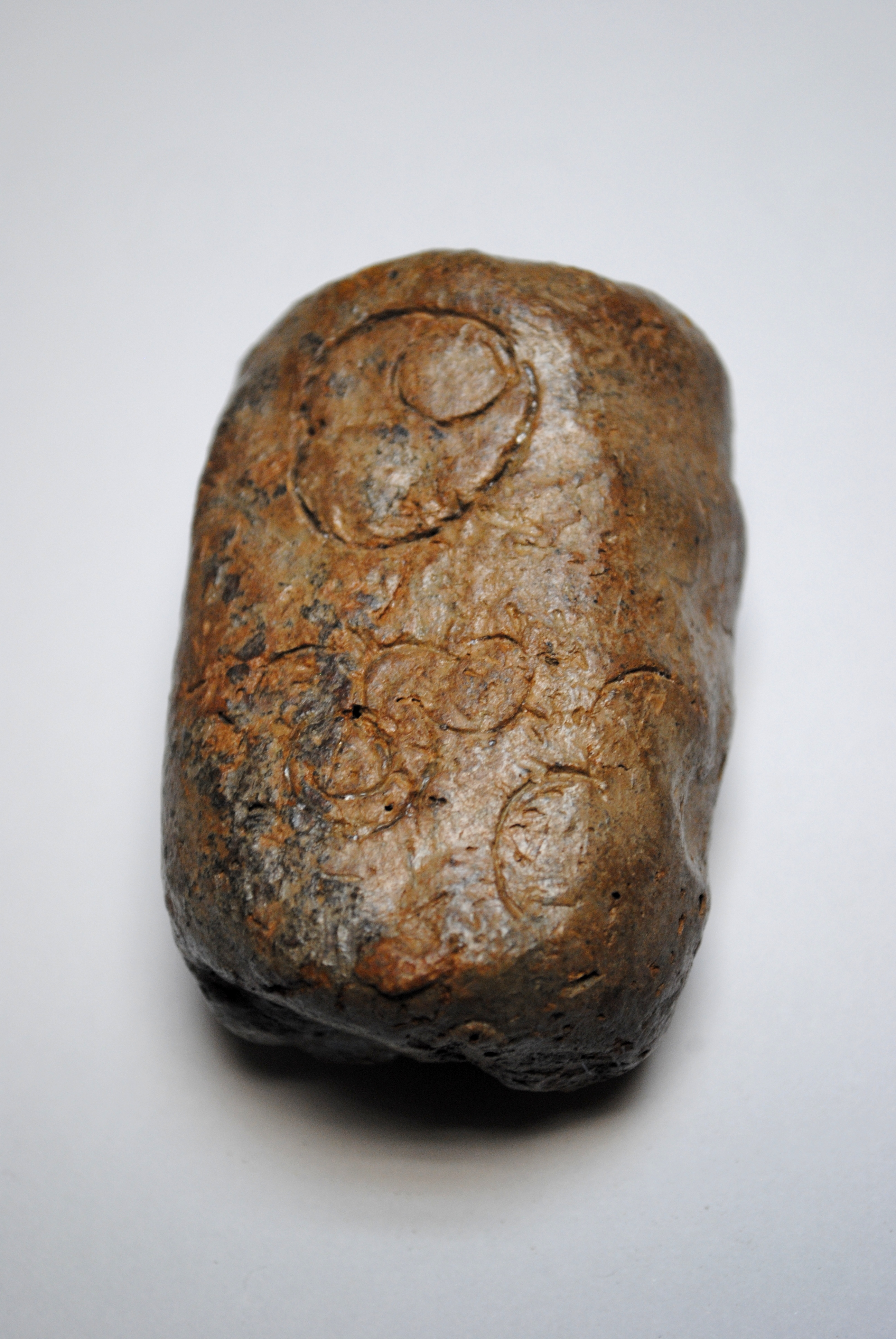 Source: Museum of Trstenik, National University Trstenik Plan on a model of a grain of wheat, founded in Blagotin Date: BC 6000 Current location: Faculty of Philosophy, Belgrade Српски (ћирилица): Извор: Музеј у Трстенику, Народни универзитет Трстеник План на моделу зрна пшенице, пронађен у Благотину Датум: 6000 година п.н.е Тренутна локација: Филозофски факултет у Београду